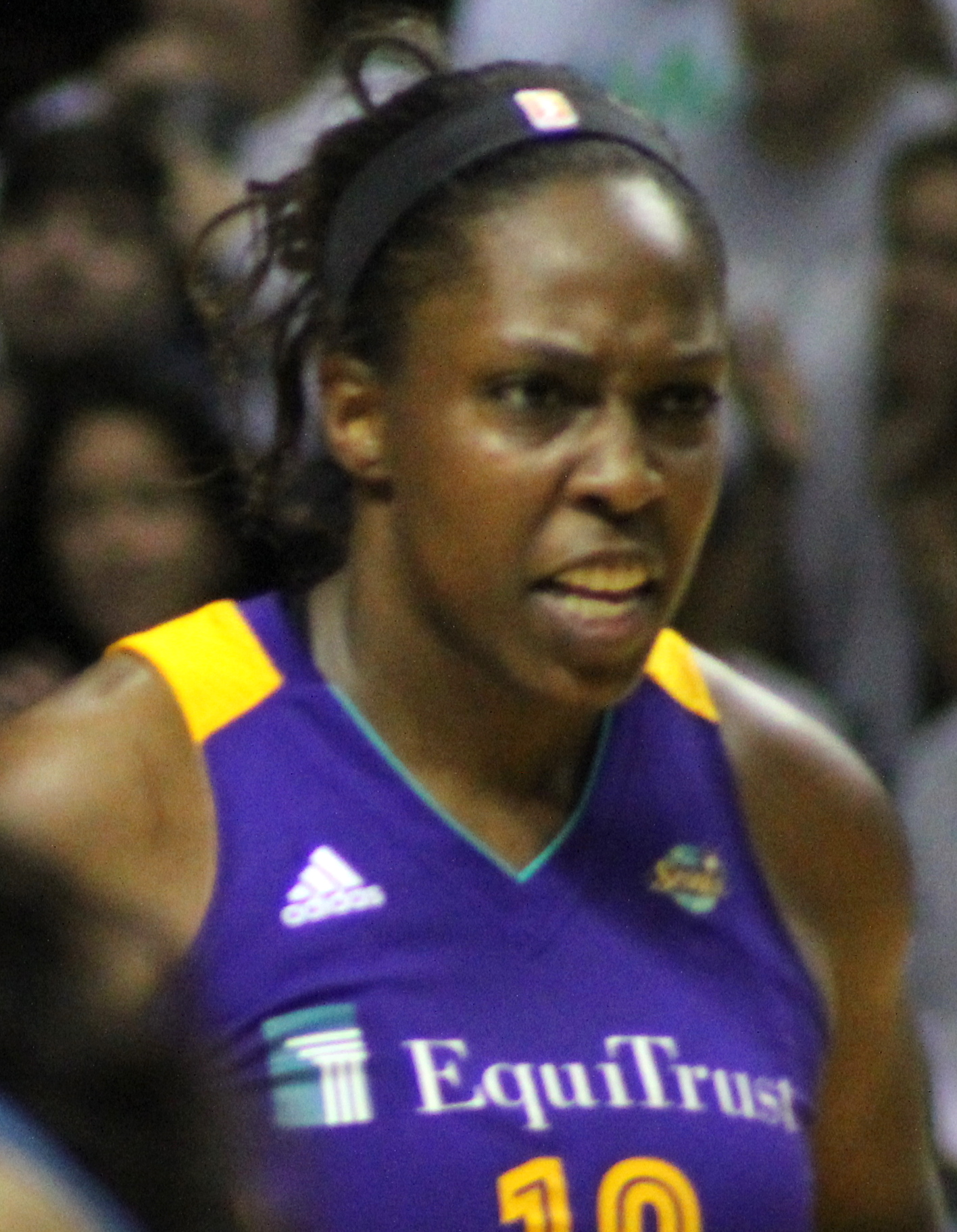 Chelsea Gray of the Los Angeles Sparks during game 5 of the 2017 WNBA Finals